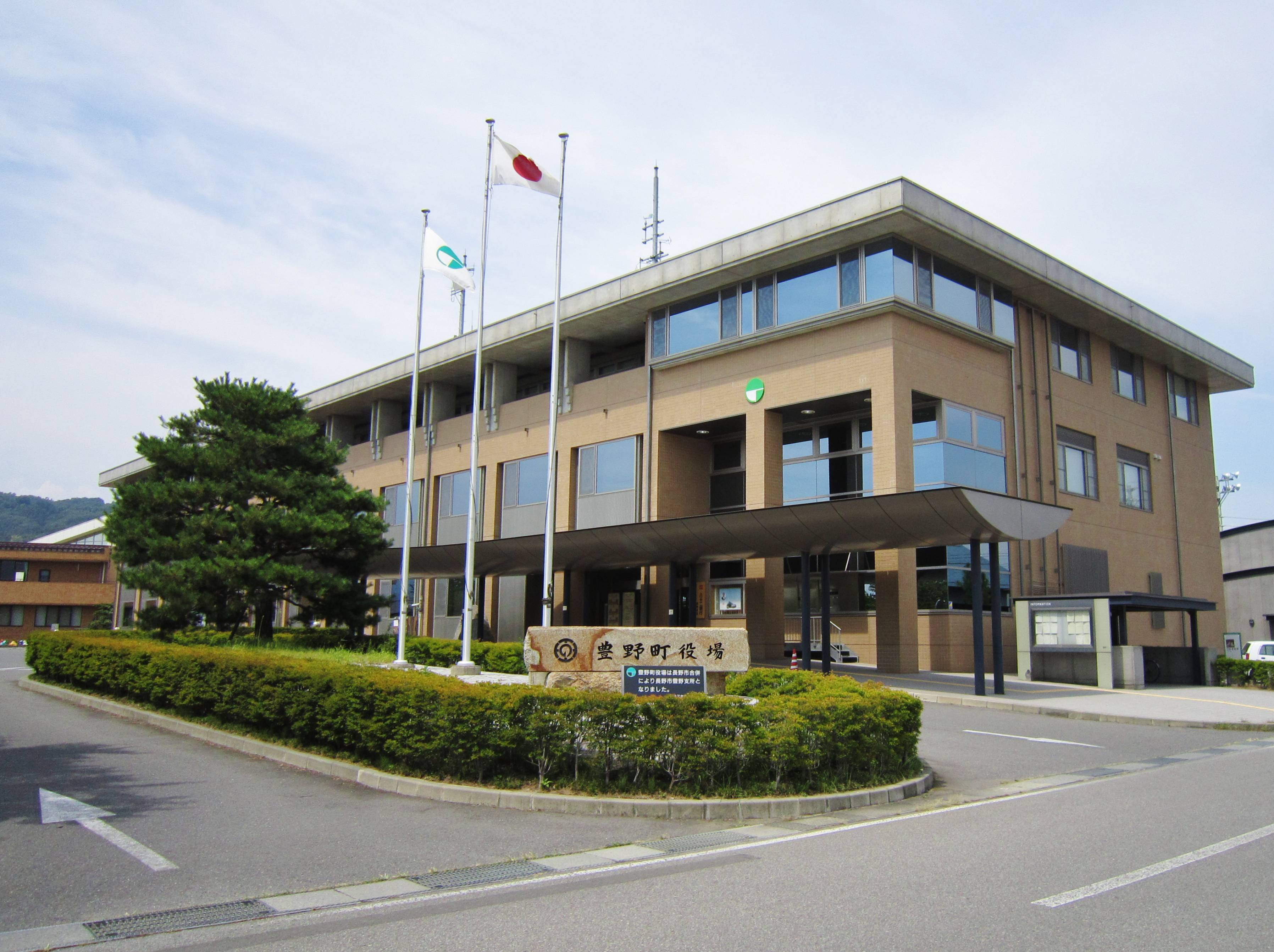 Nagano city Toyono branch office.